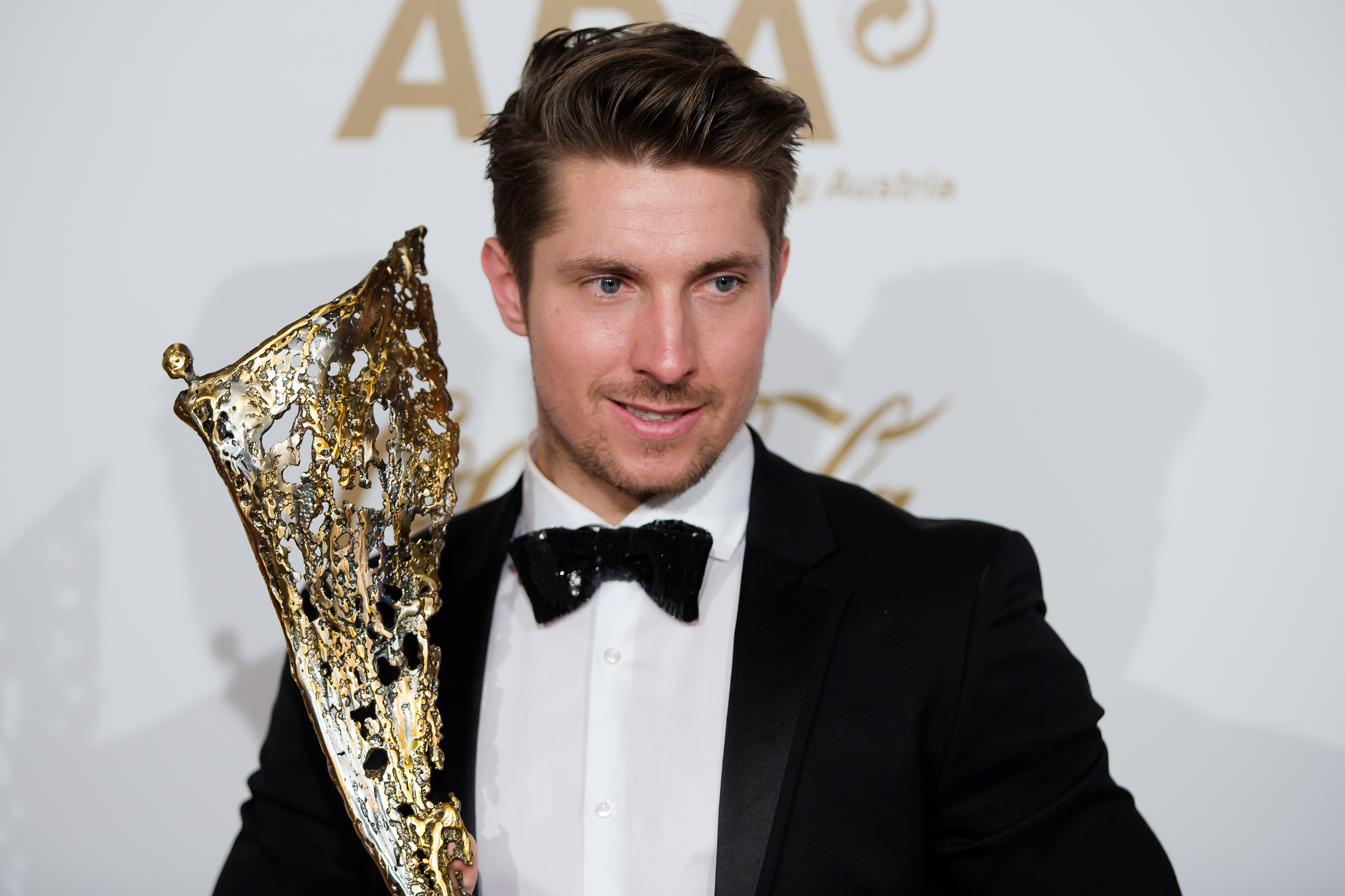 Marcel Hirscher at the gala for the Austrian Sportspersonalities of the Year 2015 (Austria Center Vienna).